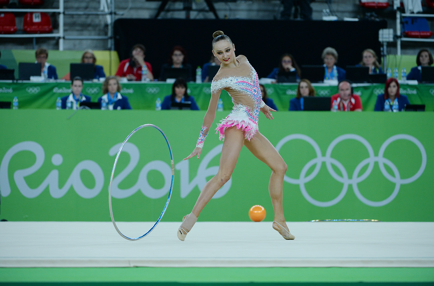 Rhythmic gymnastics at the 2016 Summer Olympics, Marina Durunda